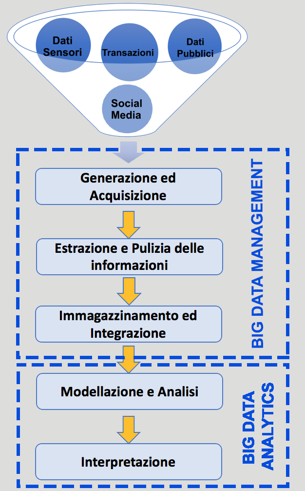 The main processes that make up the life cycle of the Big Data.